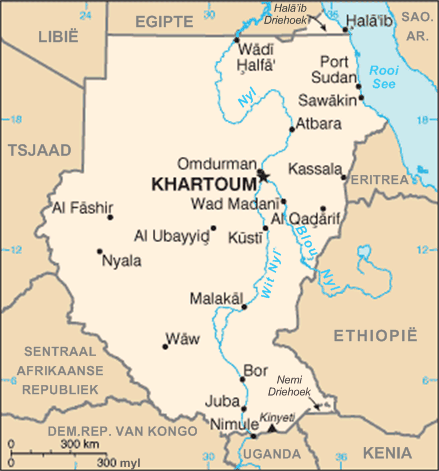 An Afrikaans map of Sudan.